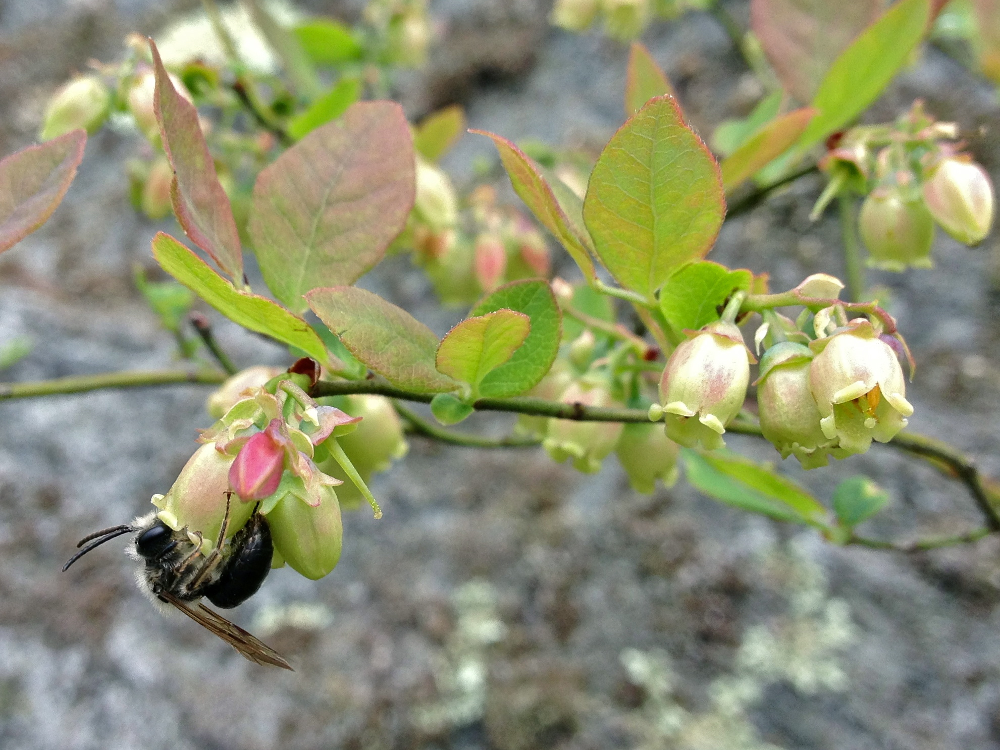 Photo of Vaccinium pallidum in flower. This is a native plant growing wild in the C & O Canal National Historical Park, Montgomery county Maryland, USA. This species is a member of the Ericaceae family.